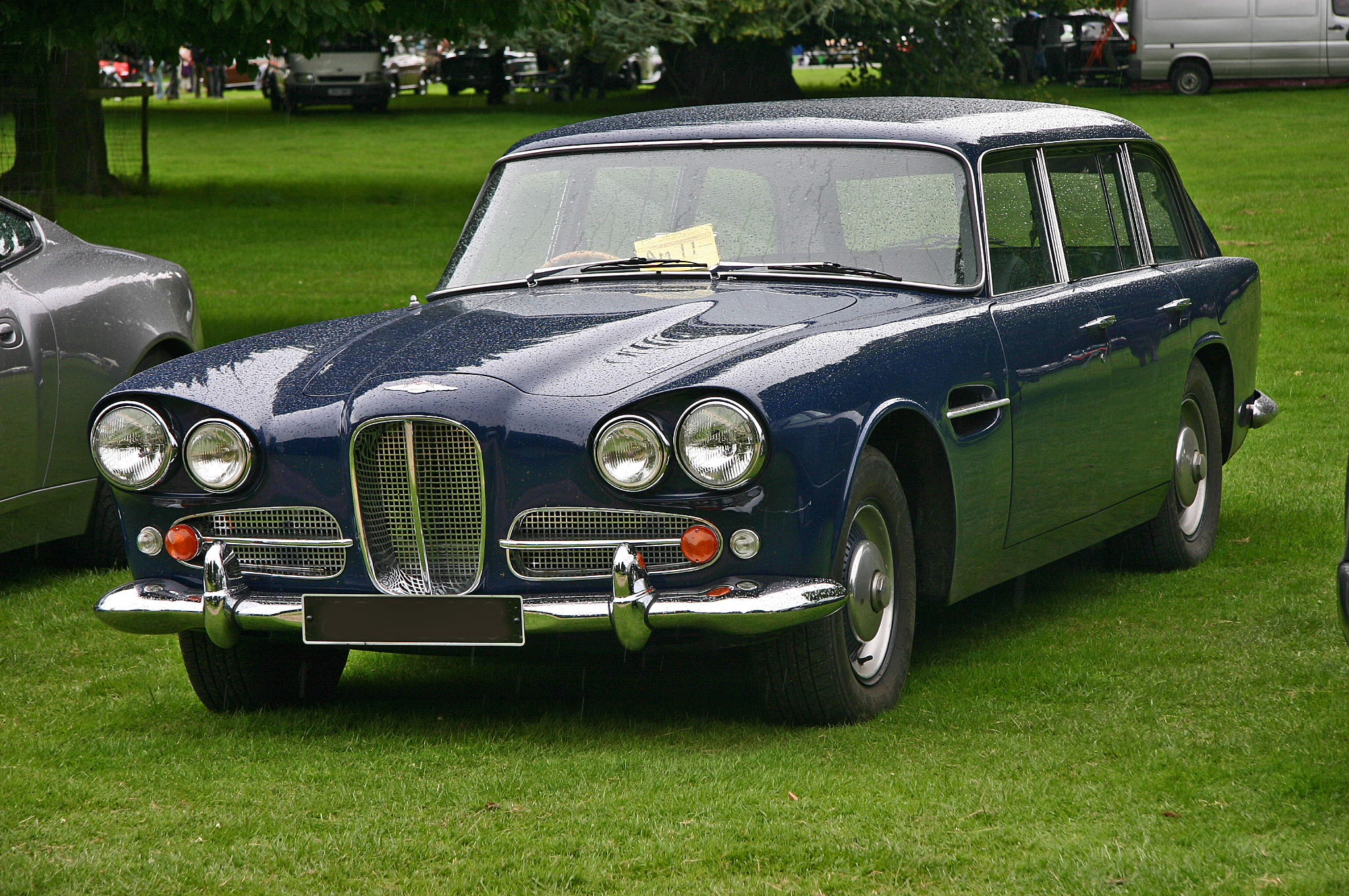 Lagonda Rapide Shooting Brake. Only 55 Lagonda Rapides were built from 1961-64. This estate is a later conversion.